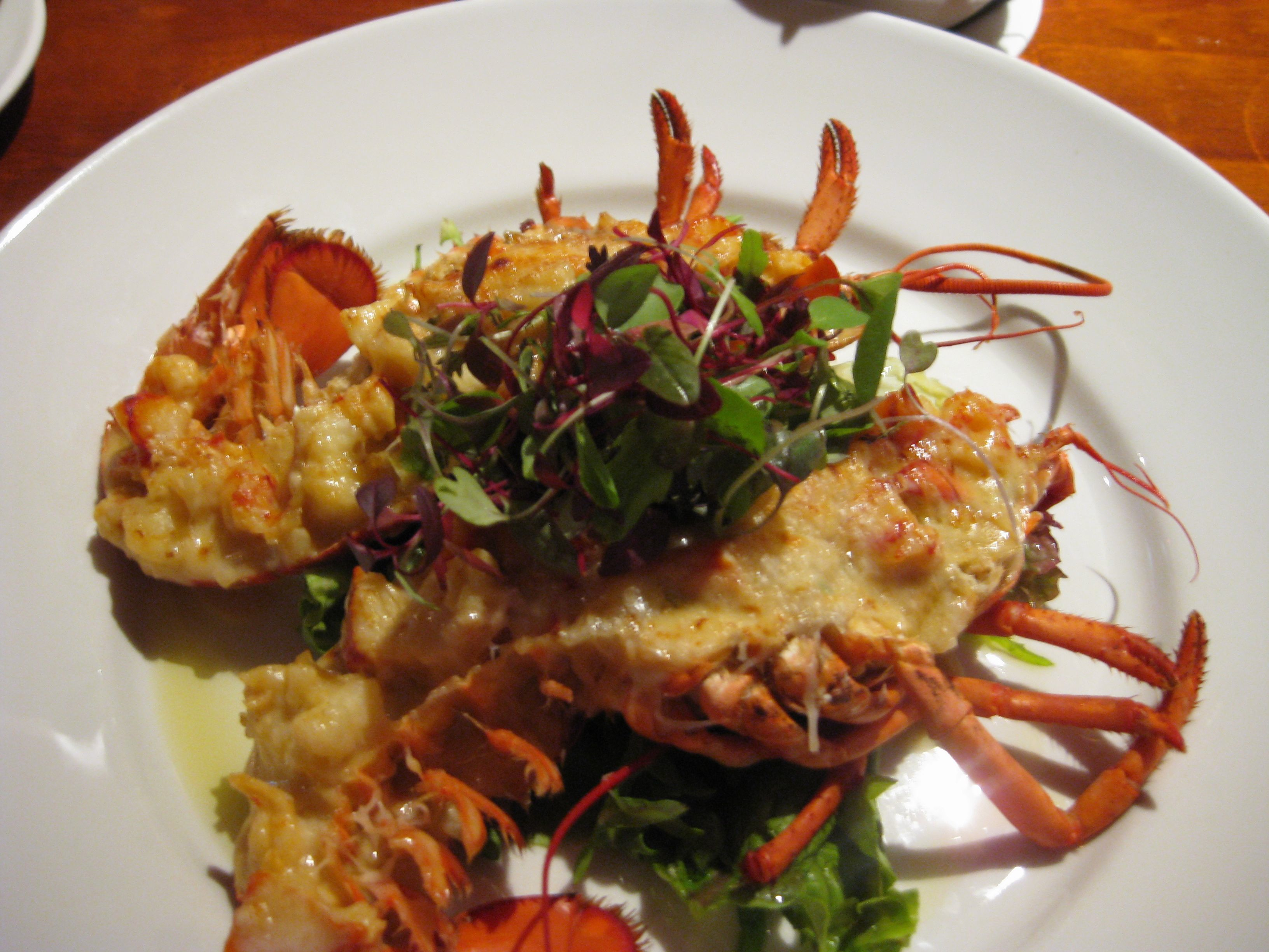 Lobster Thermidor is a French dish consisting of a creamy mixture of cooked lobster meat, egg yolks, and cognac or brandy, stuffed into a lobster shell, and optionally served with an oven-browned cheese crust, typically Gruyère. The sauce must contain mustard (typically powdered mustard). This version includes lobster and crayfish meat, but is served in the classic style of the dish, which was created in 1894 by Marie's, a Paris restaurant near the theatre Comédie Française, to honour the opening of the play Thermidor by Victorien Sardou.